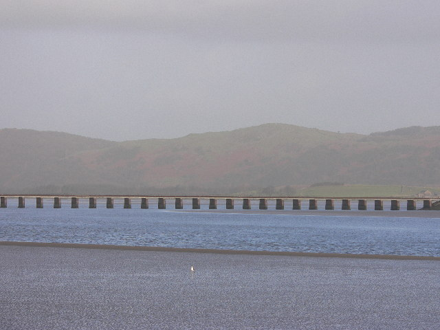 Leven Viaduct from Canal Foot. The Leven Viaduct carries the Cumbrian Coast Line from the Cartmel Peninsula to the Furness Peninsula. It is to be closed for maintenance for 3 months in 2006, entailing a 15-mile diversion for passengers on coaches.